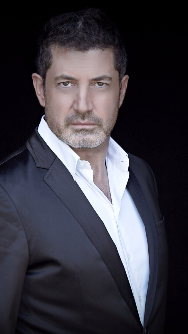 Giovanni bei seine letzte Photo shooting in Planeroad studios